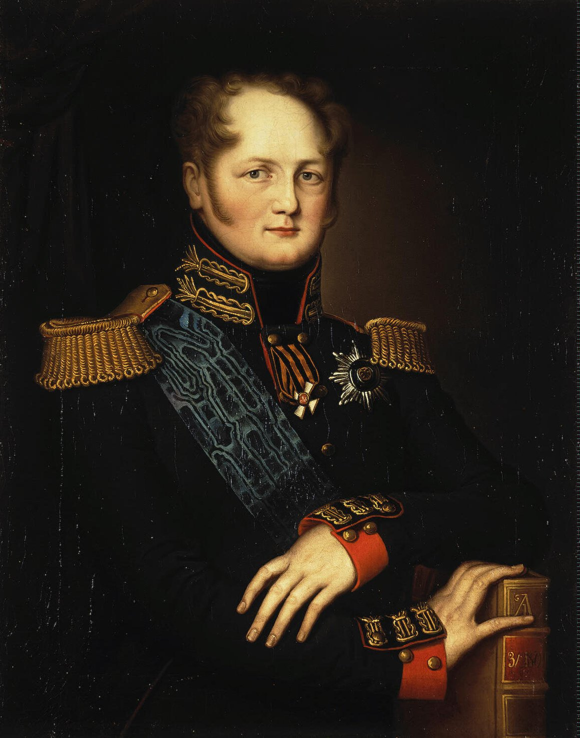 Emperor Alexander I of Russia (1777-1825)